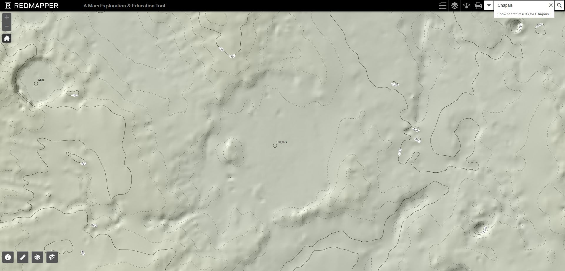 This topographic map was created using Mars Orbiter Laser Altimeter (MOLA) technology on the Mars Global Surveyor spacecraft. This image is a screenshot of RedMapper's website and shows Chapais crater.